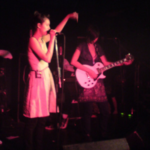 Meg & Dia at Birmingham Carling Academy 2, 19th May 2008.